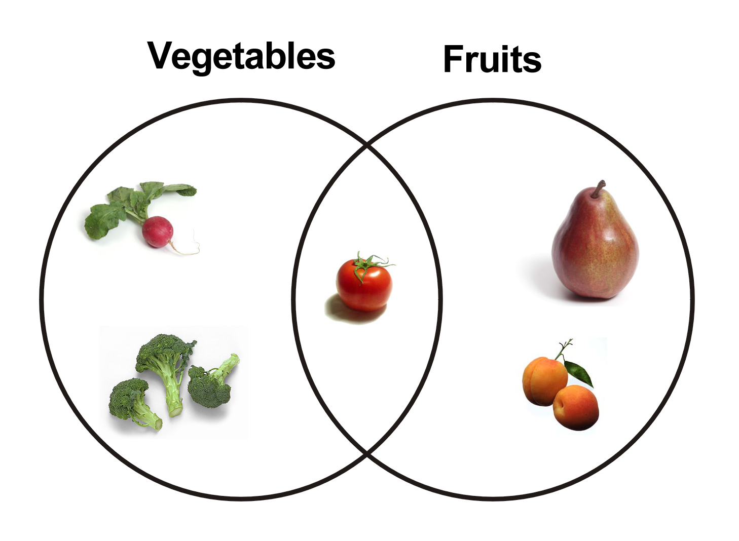 Euler diagram representing the relationship between (botanical) fruits and vegetables. Botanical fruits that are not vegetables are culinary fruits.